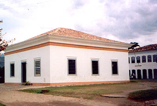 Will Canova